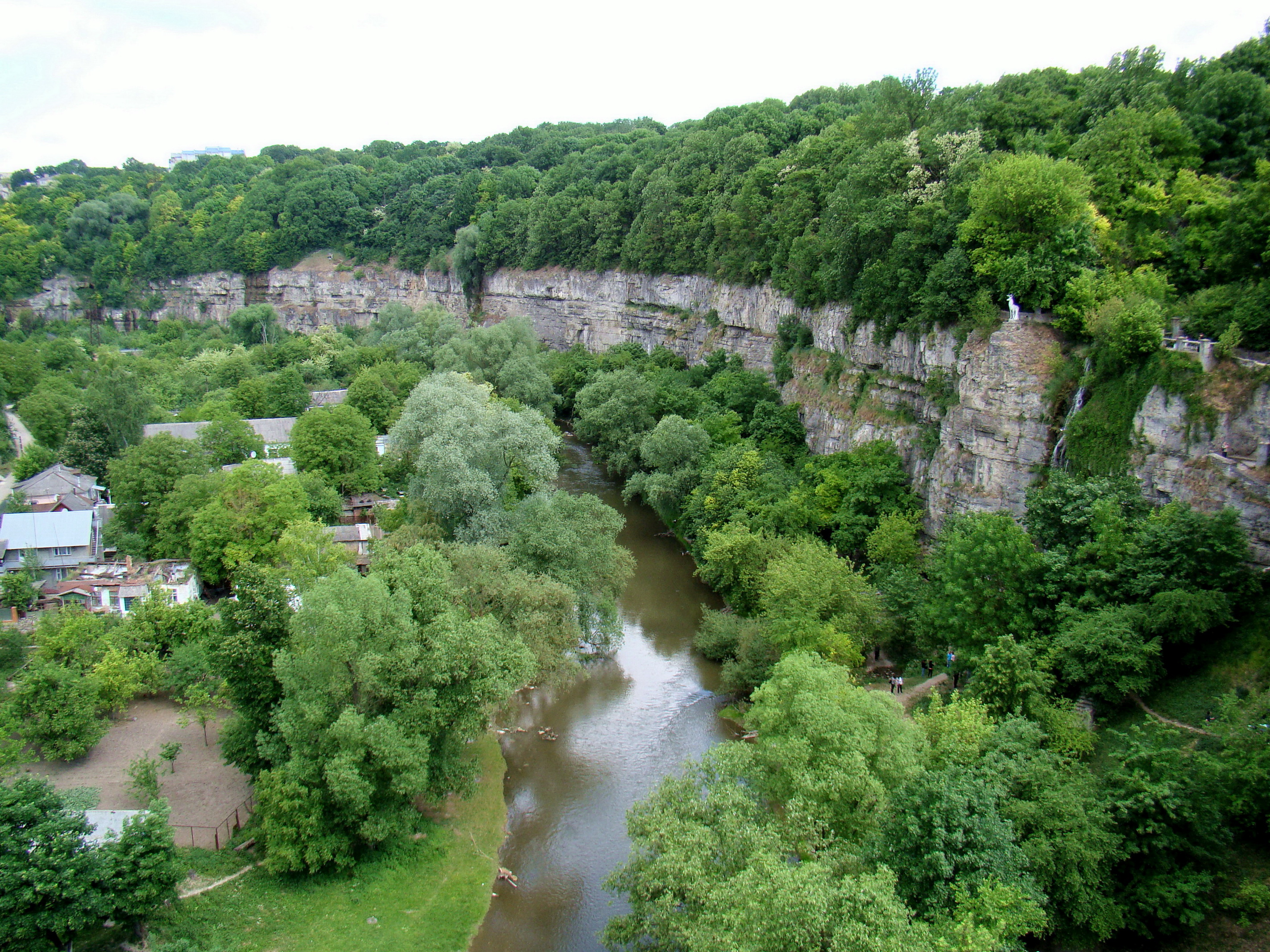 looking north over Smotrych Canyon — an 80 hectare natural monument of national importance for Ukraine in the city of Kamianets-Podilskyi (Khmelnytsky region) and its environs. Protected geological Silurian limestone deposits, relict and rare plant communities of sedge low seslerii Geyflera, feather hairy, and wormwood cirrus may be found. The limestone walls reach 50 m. There are permanent and seasonal waterfalls. Rare plants include shiverekiya Podolsky and broom Blotskaya, animals include crested newt, water snake, a green lizard, white stork, the sand-martin, common kestrel, a small horseshoe, red noctule. The Smotrich Canyon River is a tributary of the Dniester.